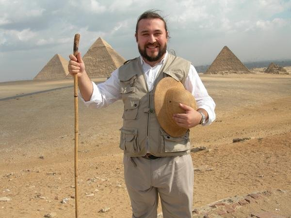 Photograph of mentalist, magician, actor, film maker, emcee and anthropologist Paul W. Draper with pyramids in the Valley of the Kings, Egypt.